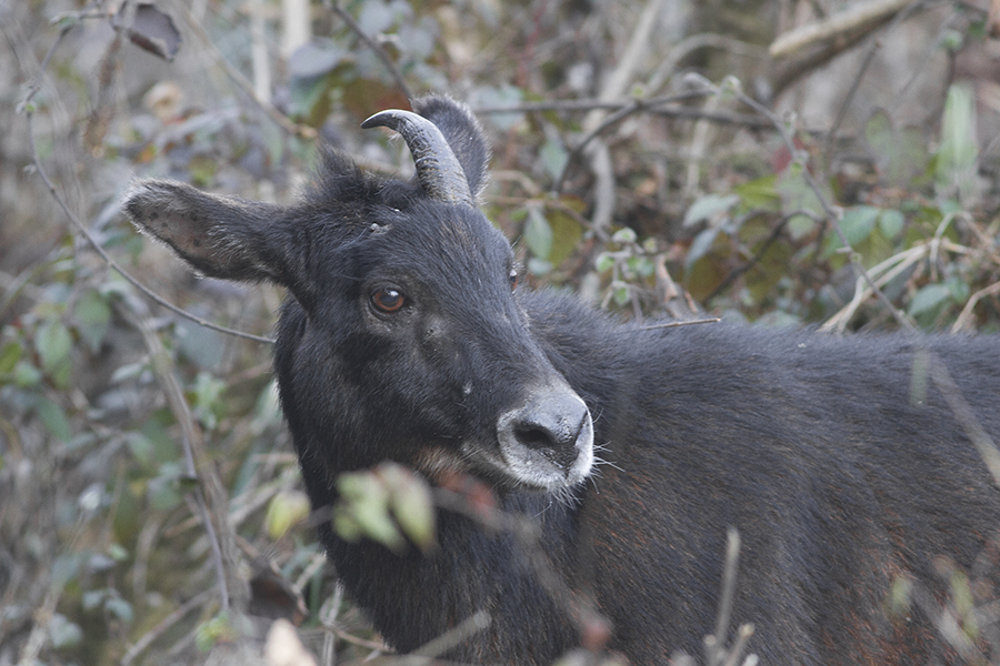 The species Himalayan Serow had been photographed during the wildlife photography trip of GoingWild in Pangolakha Wildlife Sanctuary at East Sikkim, Sikkim in India on 13.02.2016.